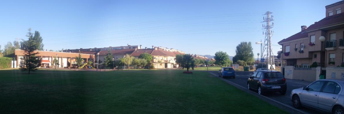 Partial view of Villapatro in Lardero (La Rioja, Spain)